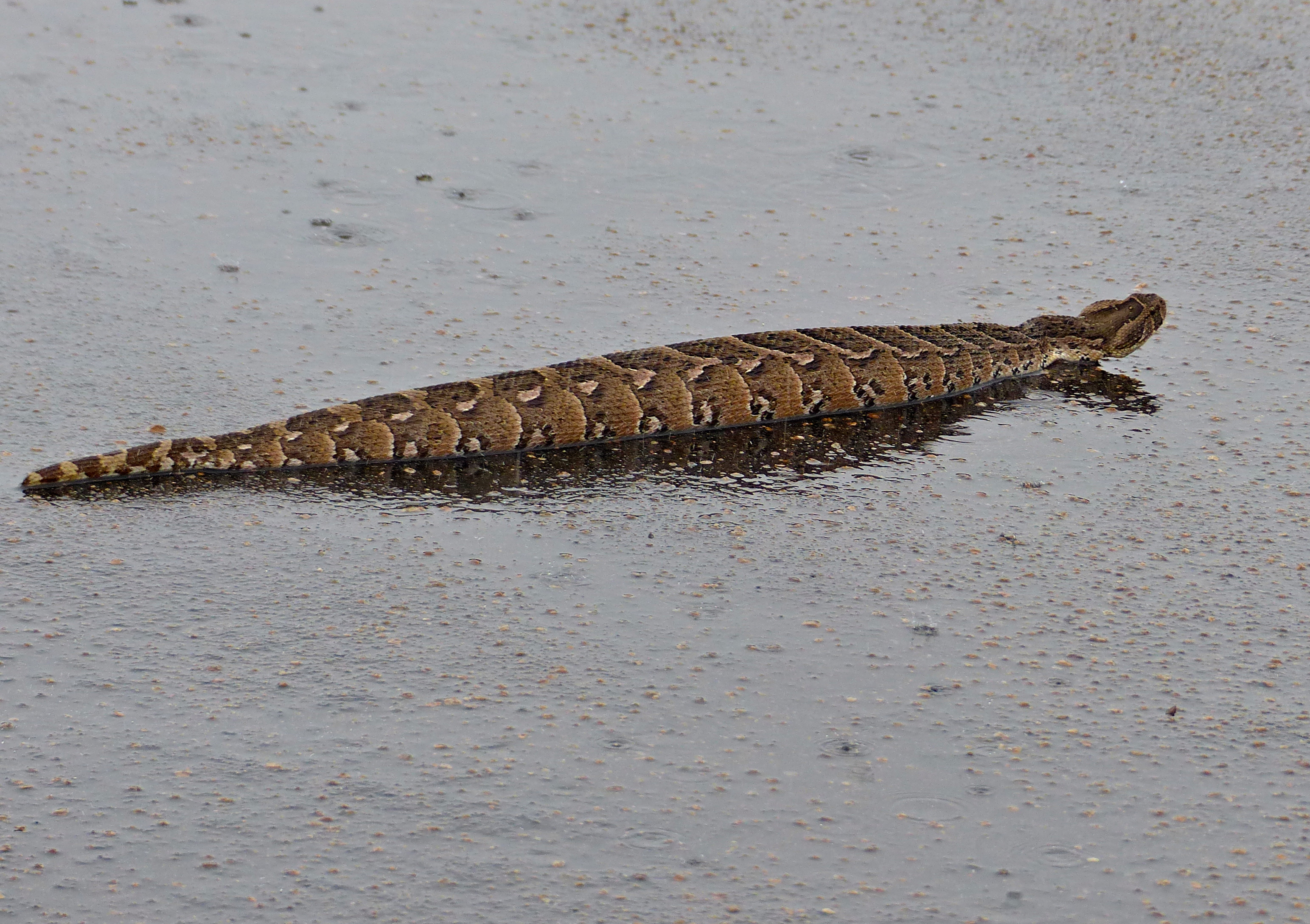 H1-3 Road South of Satara, Kruger NP, SOUTH AFRICA